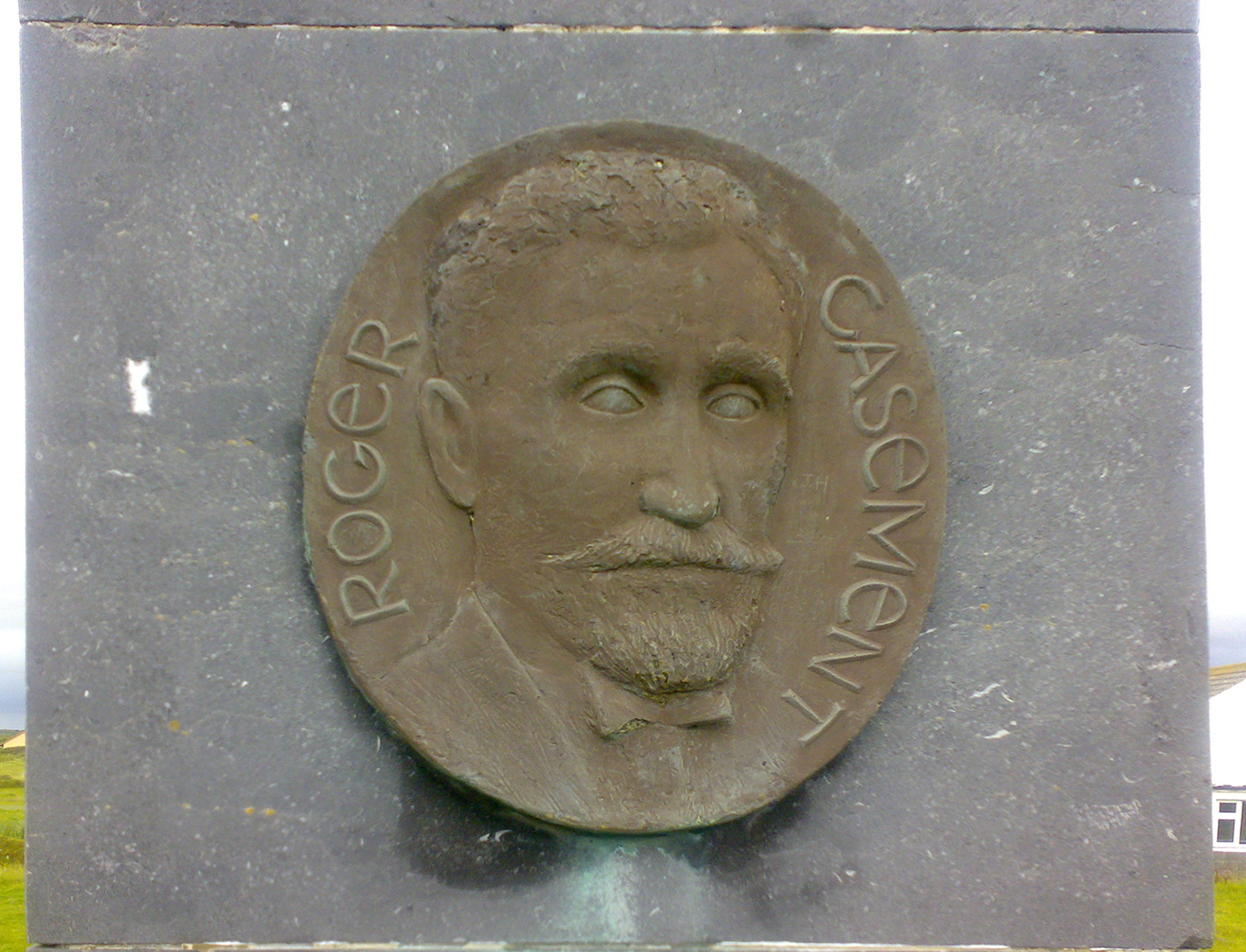 casement